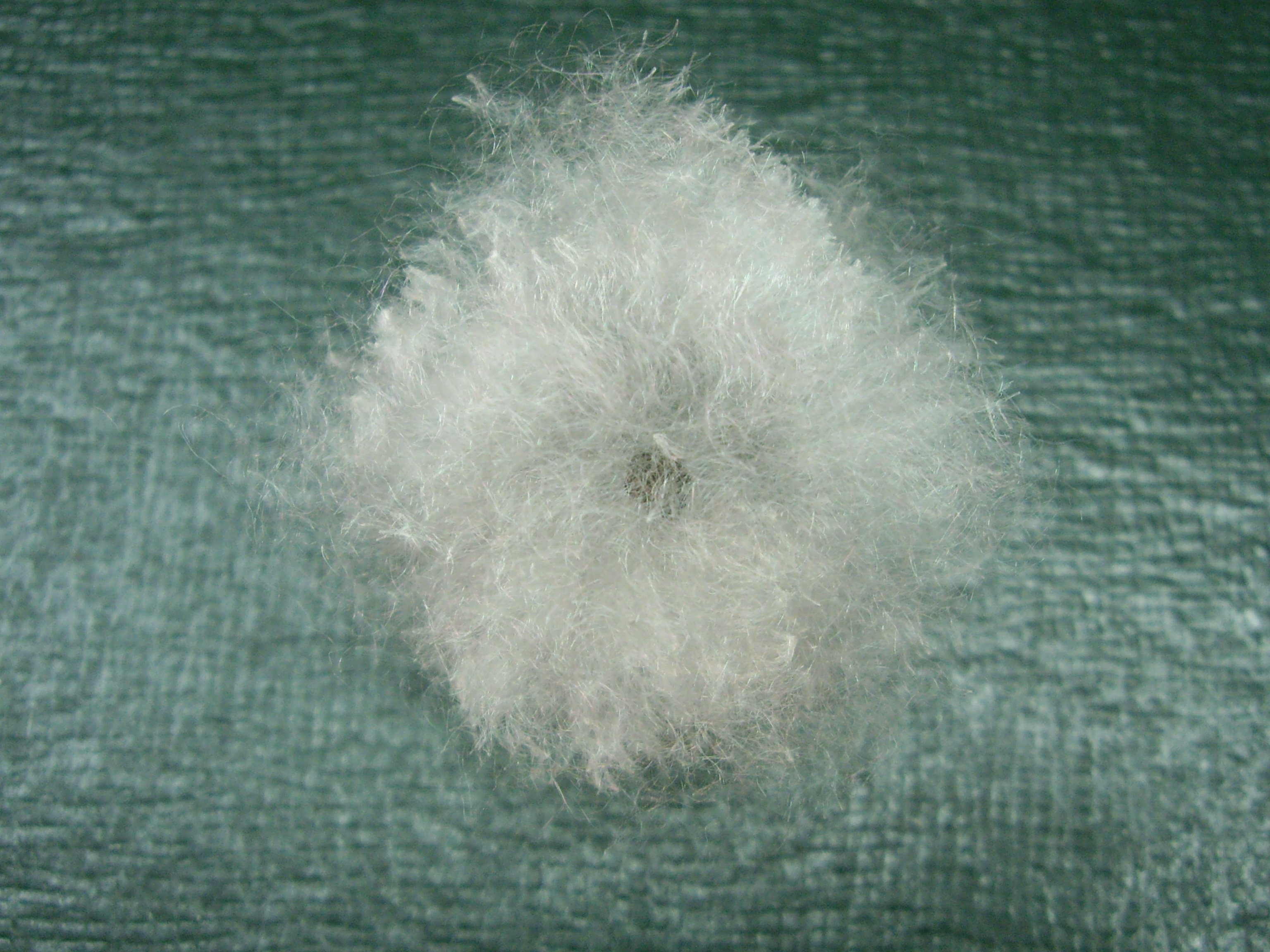 Bombax ceiba(Cotton tree)'s cotton and a seed in the center.